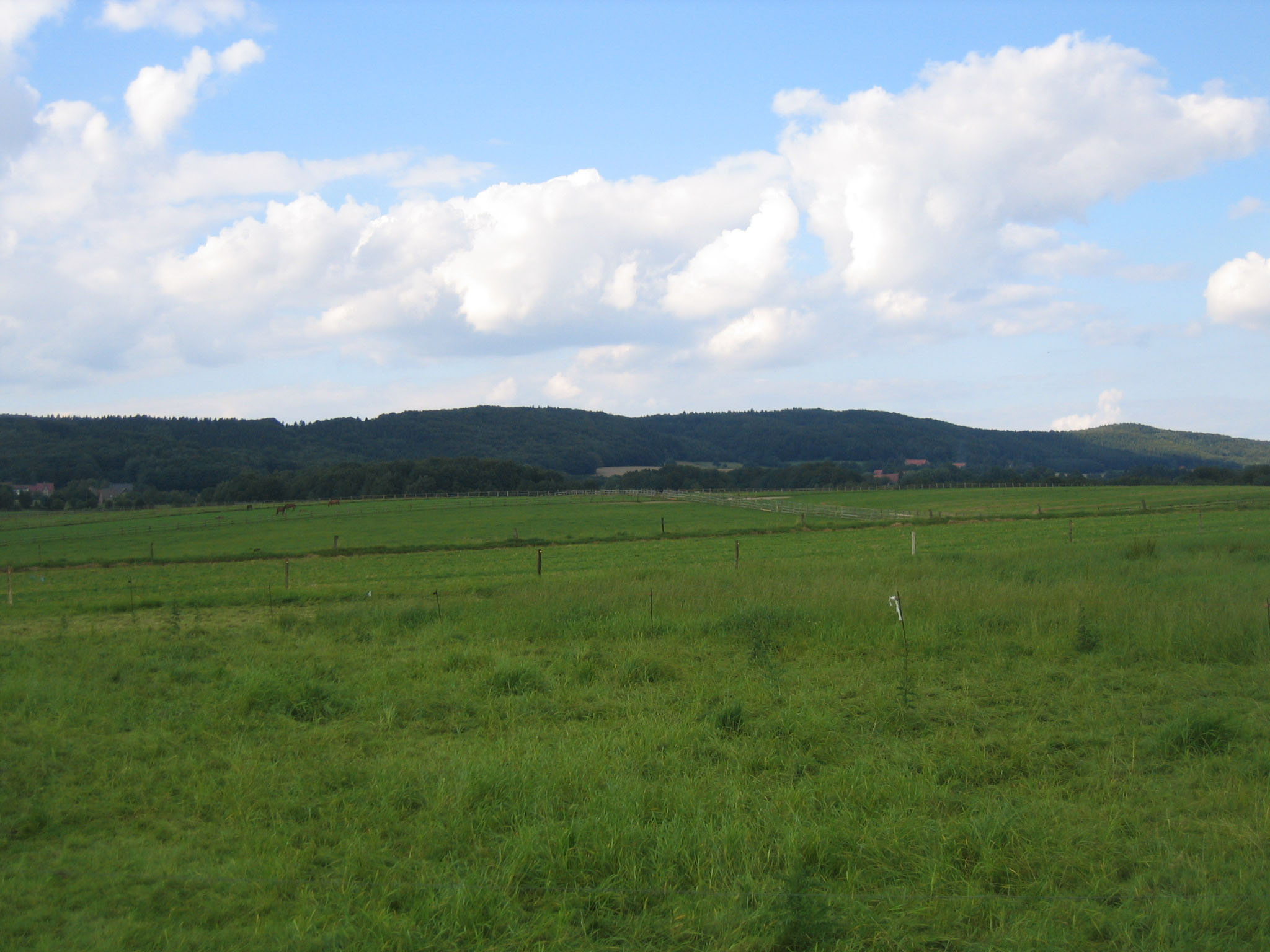 Picture shows the Donoer Berg in town of Rödinghausen-Bieren, Germany.